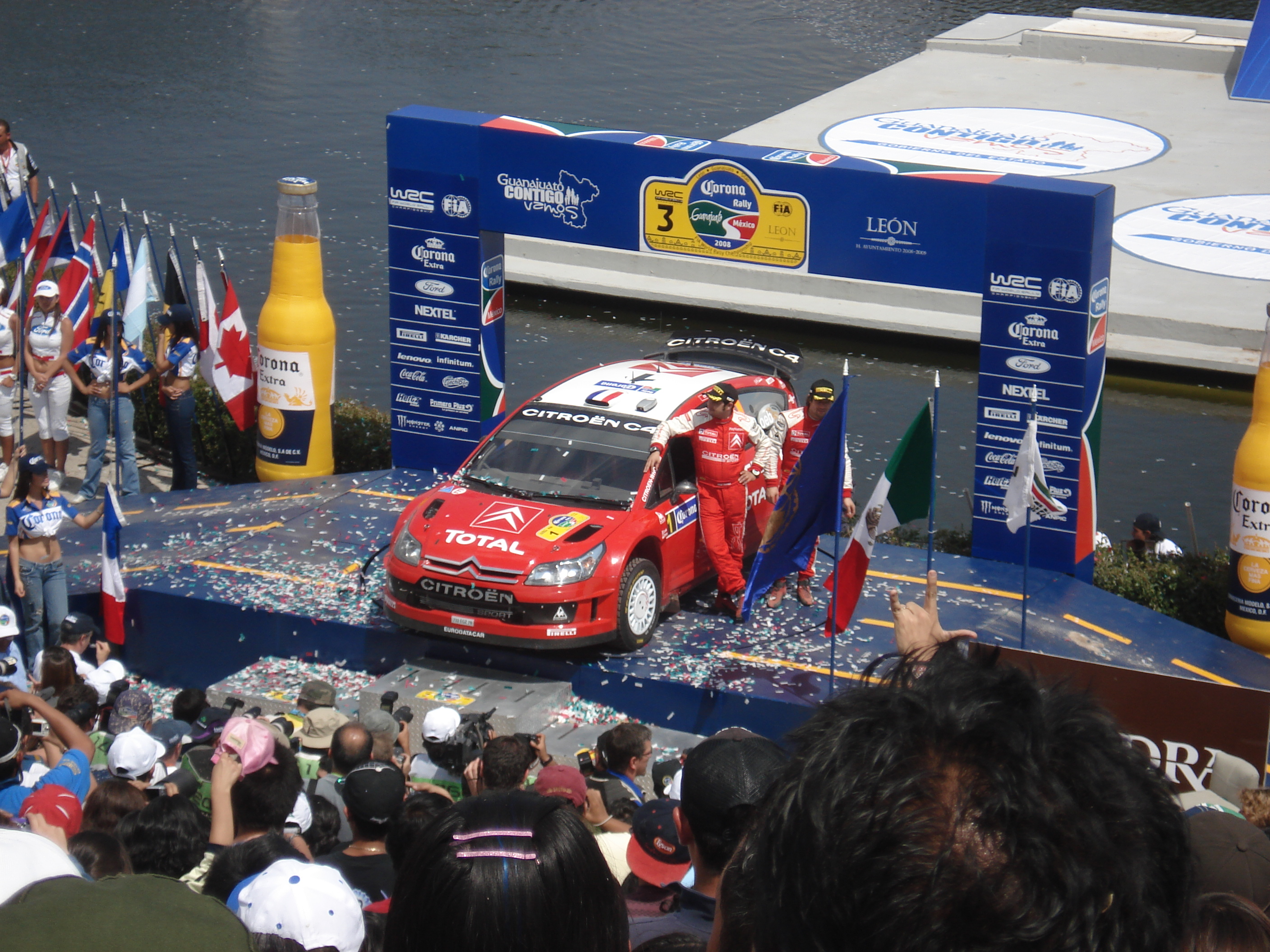 Sebastien Loeb and Daniel Elena with their car on the podium after winning the 2008 Rally Mexico WRC event.